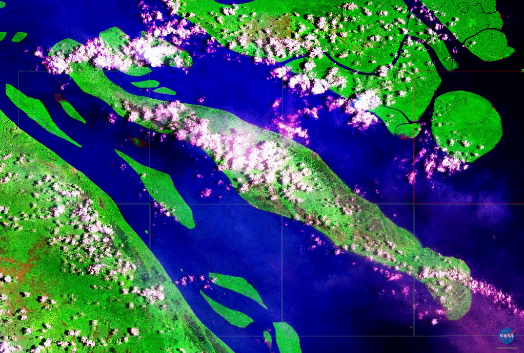 Central Fly River Delta, Western Province, Papua New Guinea Kiwai Island in center of image